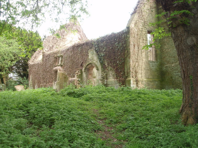 The ruin of All Saints parish church, Denton, Cambridgeshire (formerly Huntingdonshire), seen from the northwest